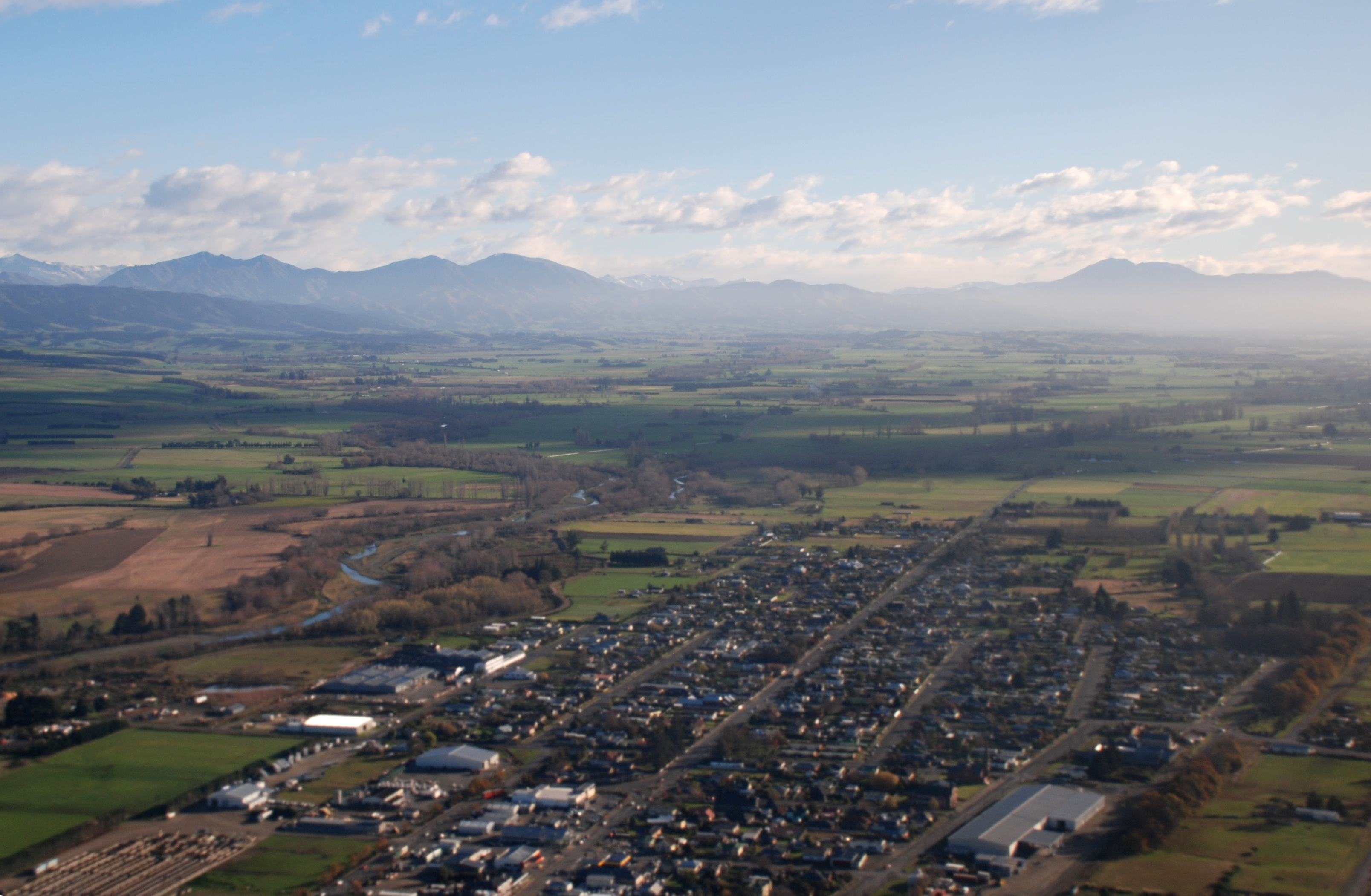 Temuka. En route Wellington to Timaru.